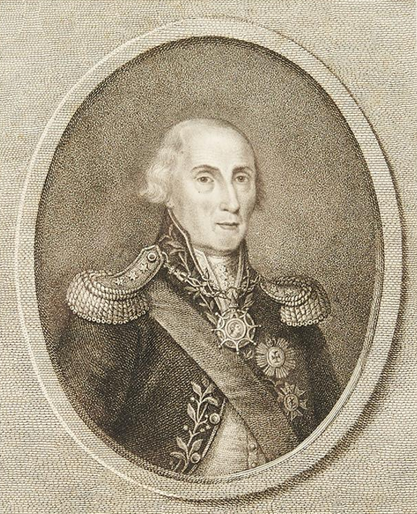 General Manuel Jorge Gomes de Sepúlveda (1735-1814)